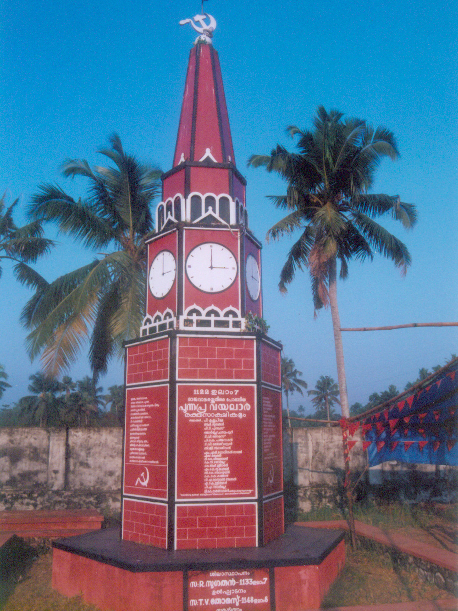 Memorial of Punnapra-Vayalar uprising